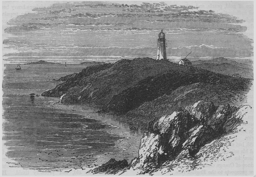 First Gay Head Lighthouse - 1799 octagonal wooden structure - printed c1880 from vintage wood engraving